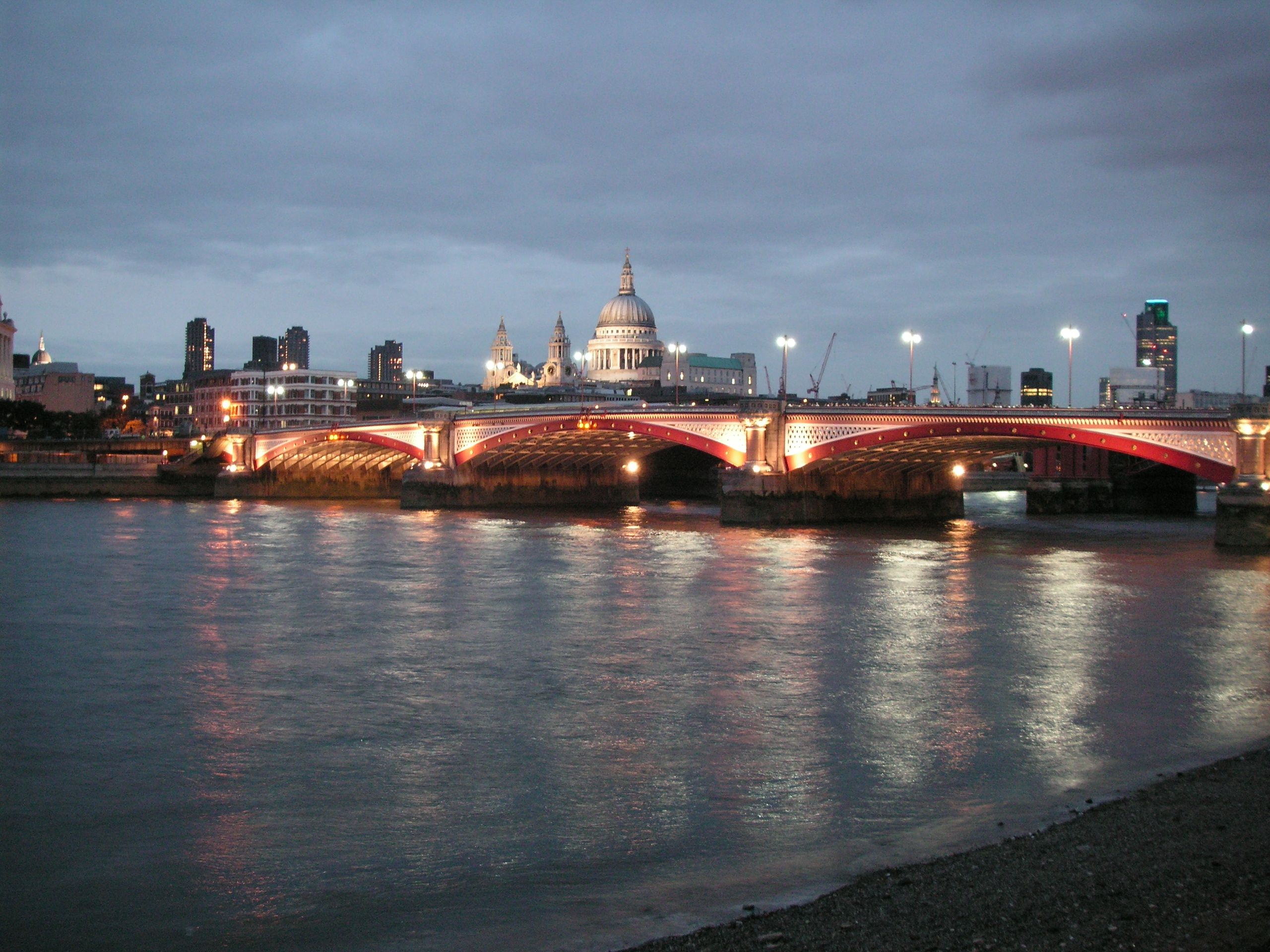 Blackfriars Bridge, with St. Paul's in the background.